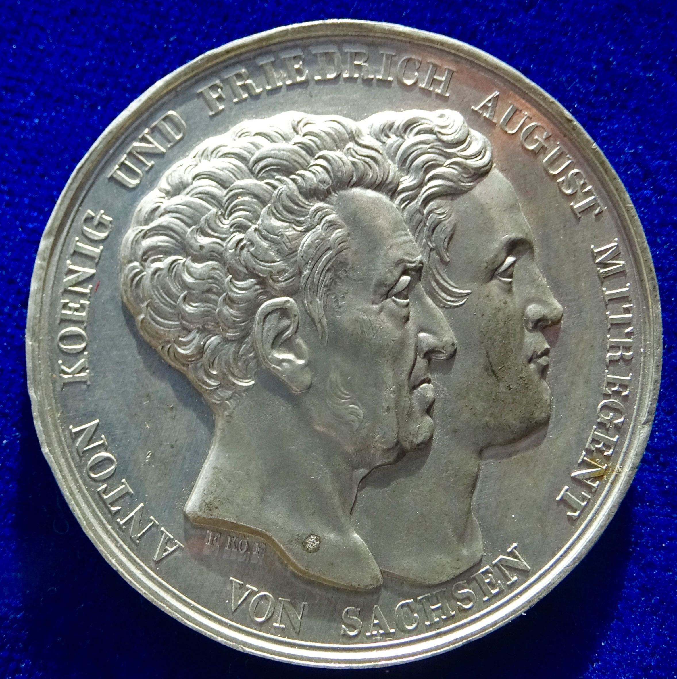 Medallion d. = 47 mm. Anton, King of Saxony 1827 - 1836 & Regent Friedrich August 1830 - 1836 Conjoined heads r., around: "ANTON KOENIG UND FRIEDRICH AUGUST MITREGENT VON SACHSEN"/ 2 lines on scroll of the Constitution: "AM 4. SEPTBR. 1831", around: "* VEREINTEN SICH MIT DEN GETREUEN STAENDEN ZU NEUER VERFASSUNG DES STAATS *". Slg. Merseburg 2177 (Ag and Cu); Forrer III, p.196 Condition : EXTREMELY FINE+.